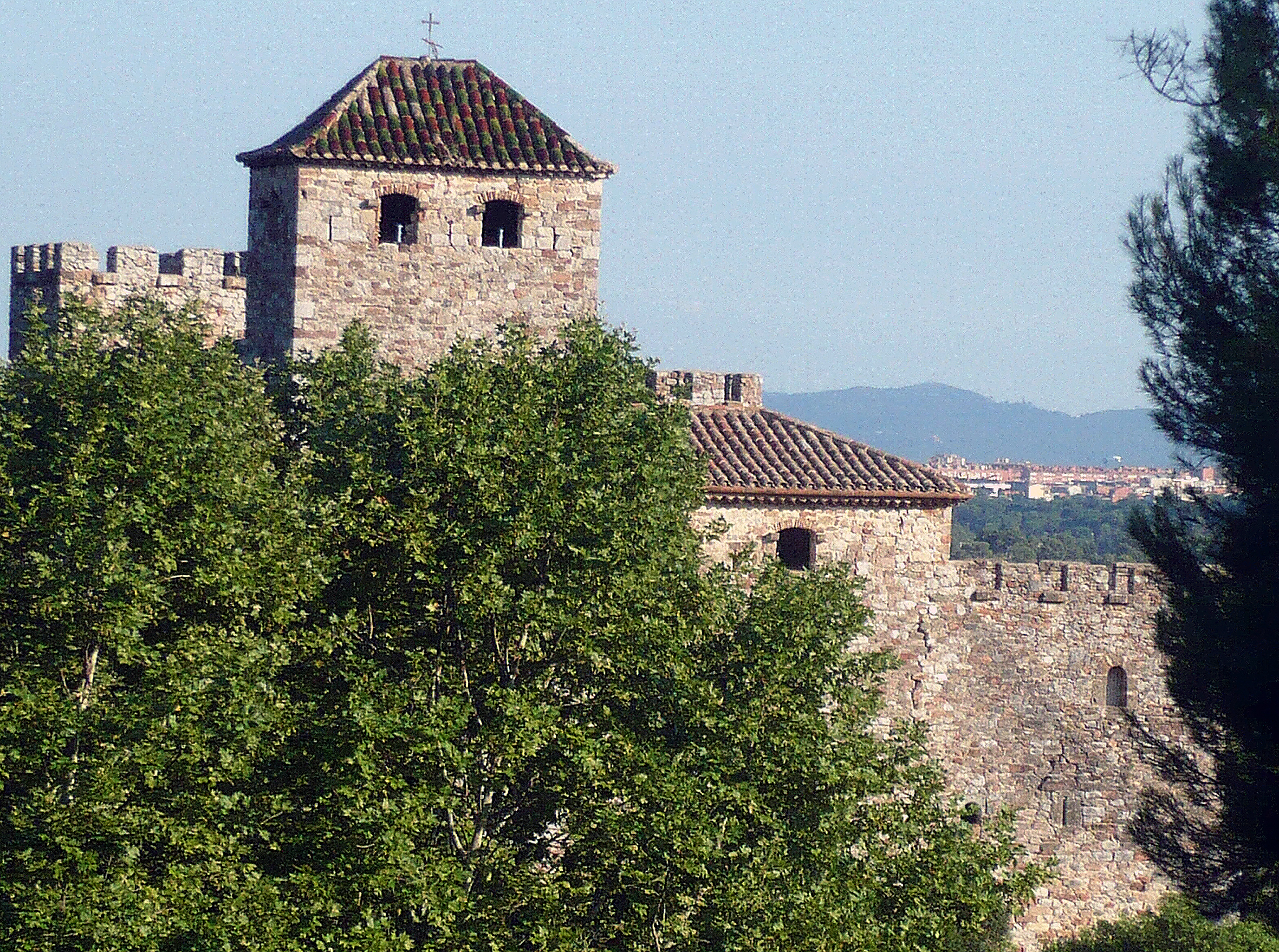 Clasqueri Castle @ Castellar del Vallès (Catalunya, SPAIN).